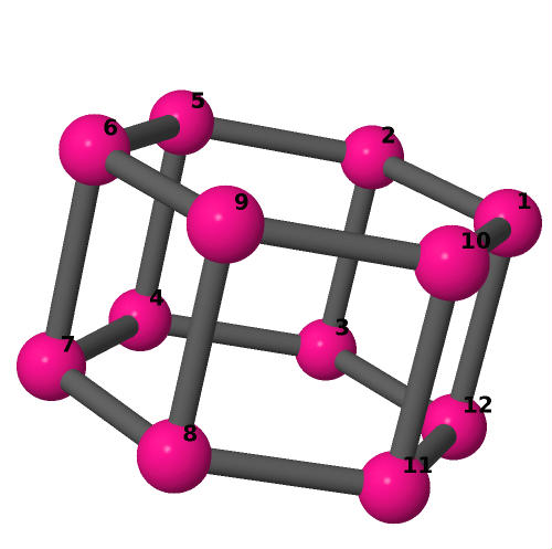 One of 85 simple cubic graphs with 12 vertices.